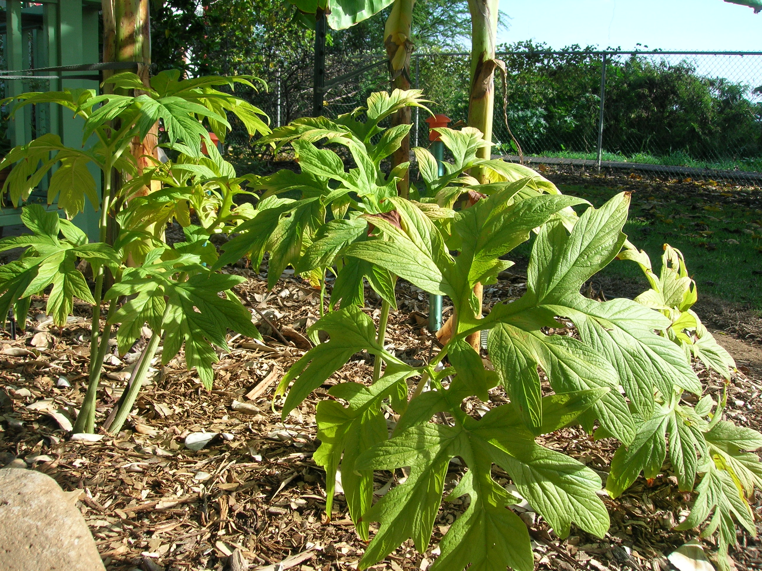 Tacca leontopetaloides (habit). Location: Maui, Maui Nui Botanical Garden